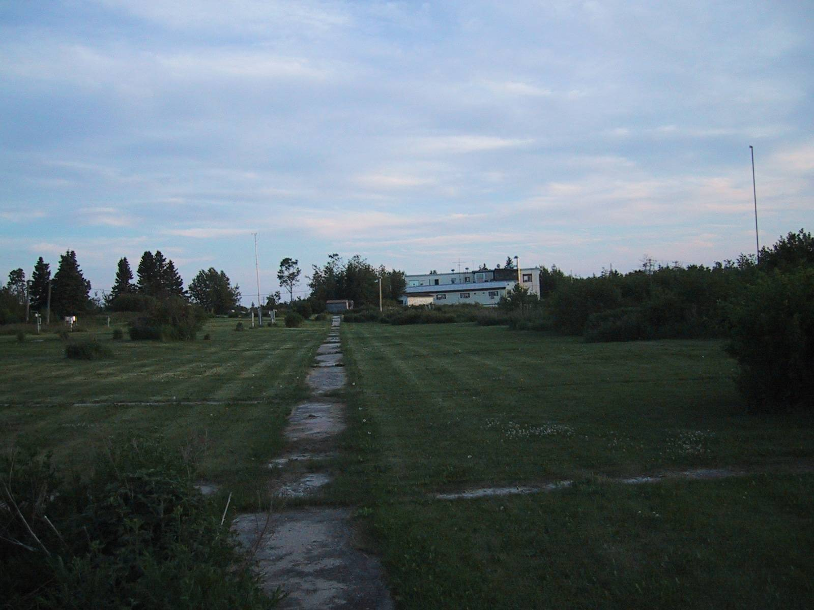 Island Falls staffhouse showing cleared area that was once the camp site. Taken .